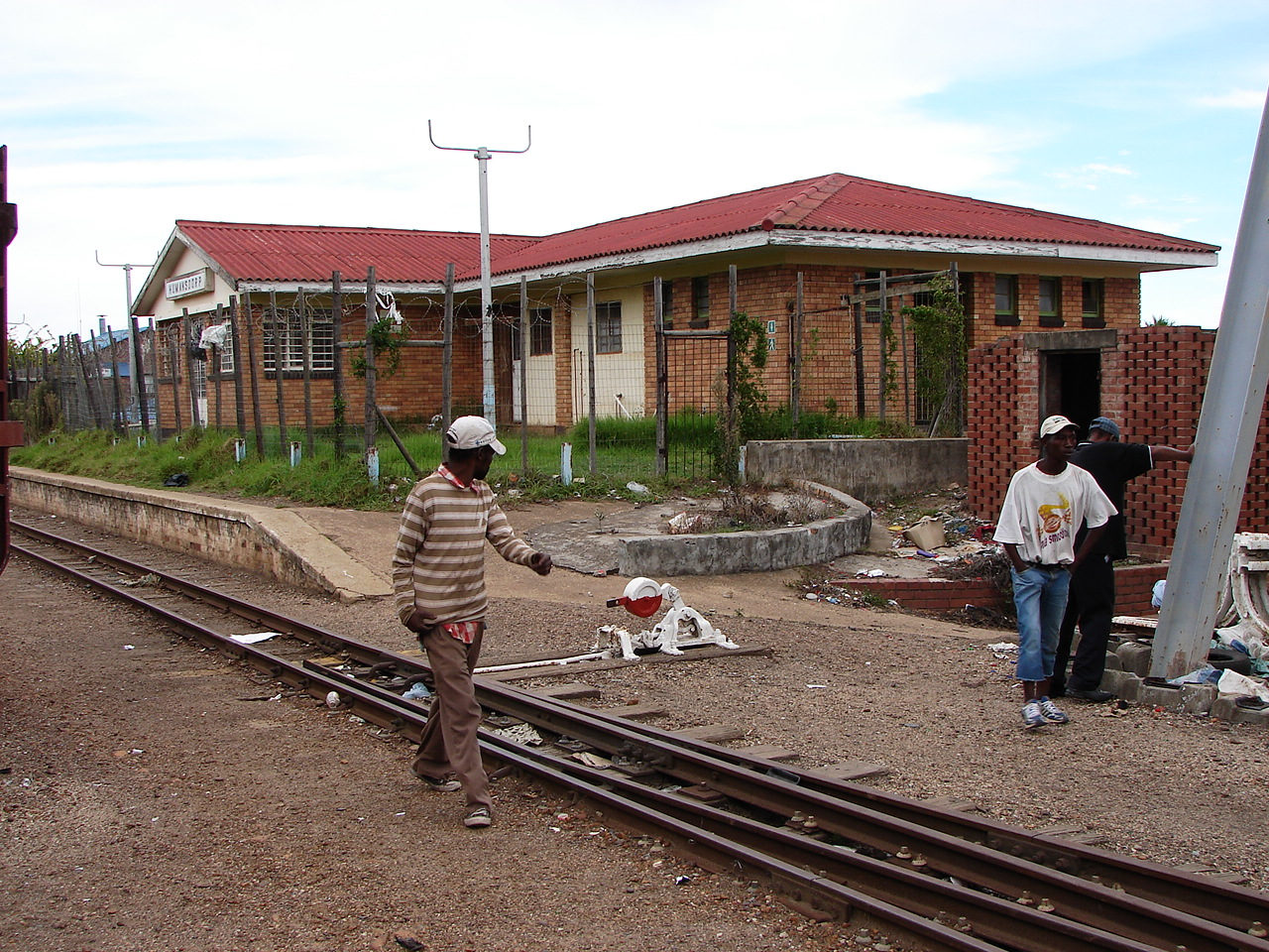 Humansdorp station on the Avontuur line – barely surviving behind barbed wire